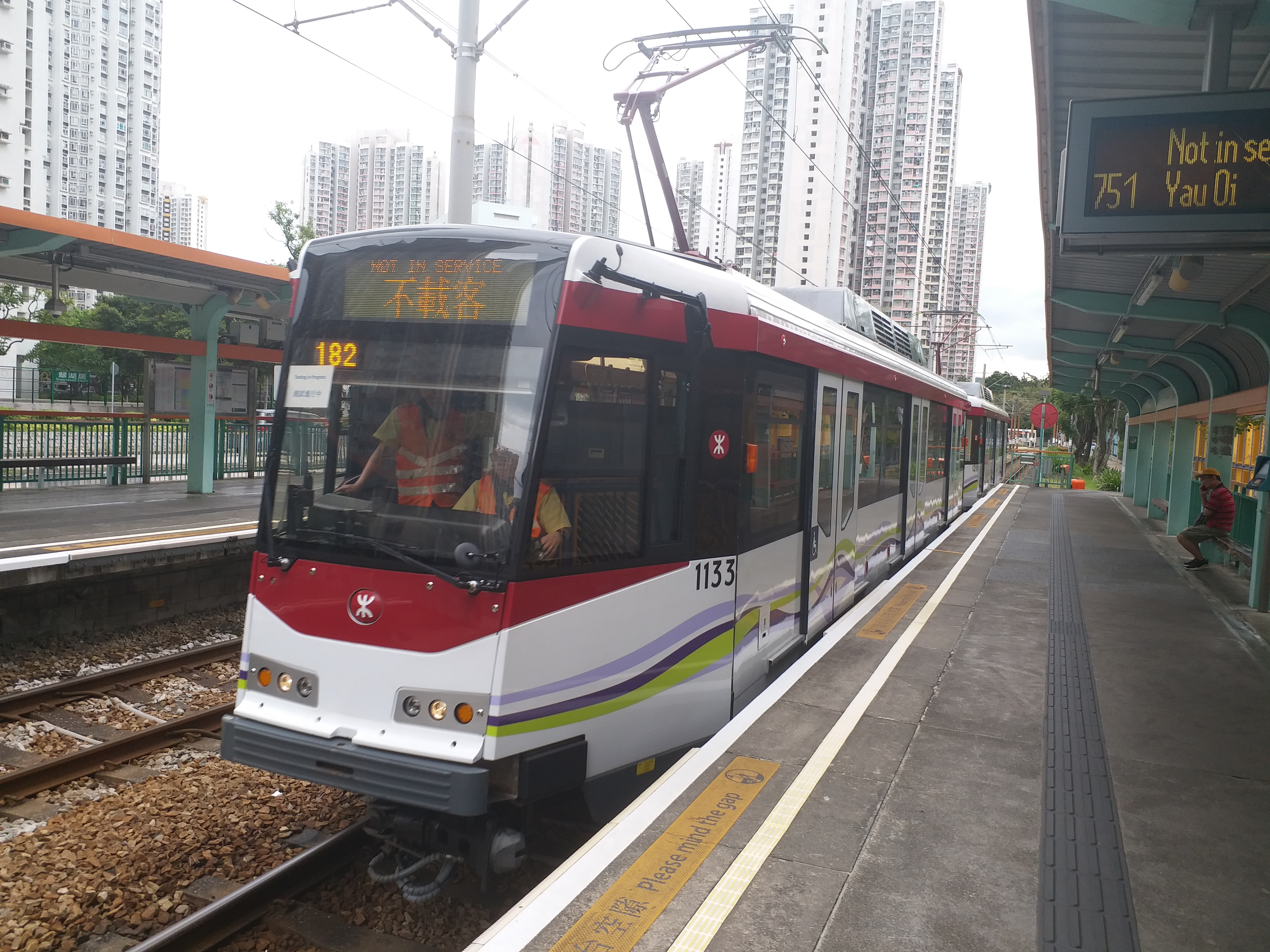 A CRRC Phase V light rail train under testing, car 1133, passing through Chestwood stop, Hong Kong.